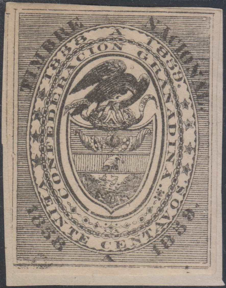 First revenue stamp of Colombia, unused on small fragment. Catalogue: Forbin 1, Anyon 1